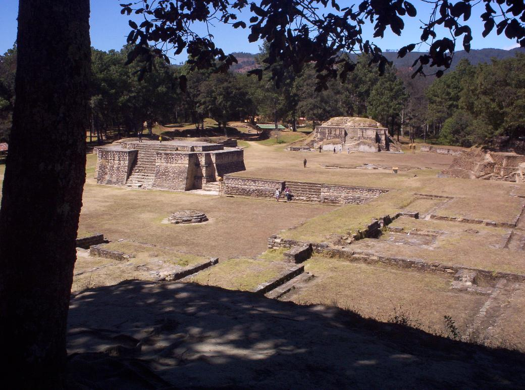 Ruins of Iximche, Late Postclassic capital of the Kaqchikel Maya until 1524. Tecpán Guatemala, Chimaltenango Department, Guatemala. The two main buildings are the temples Structure 1 and Structure 2.